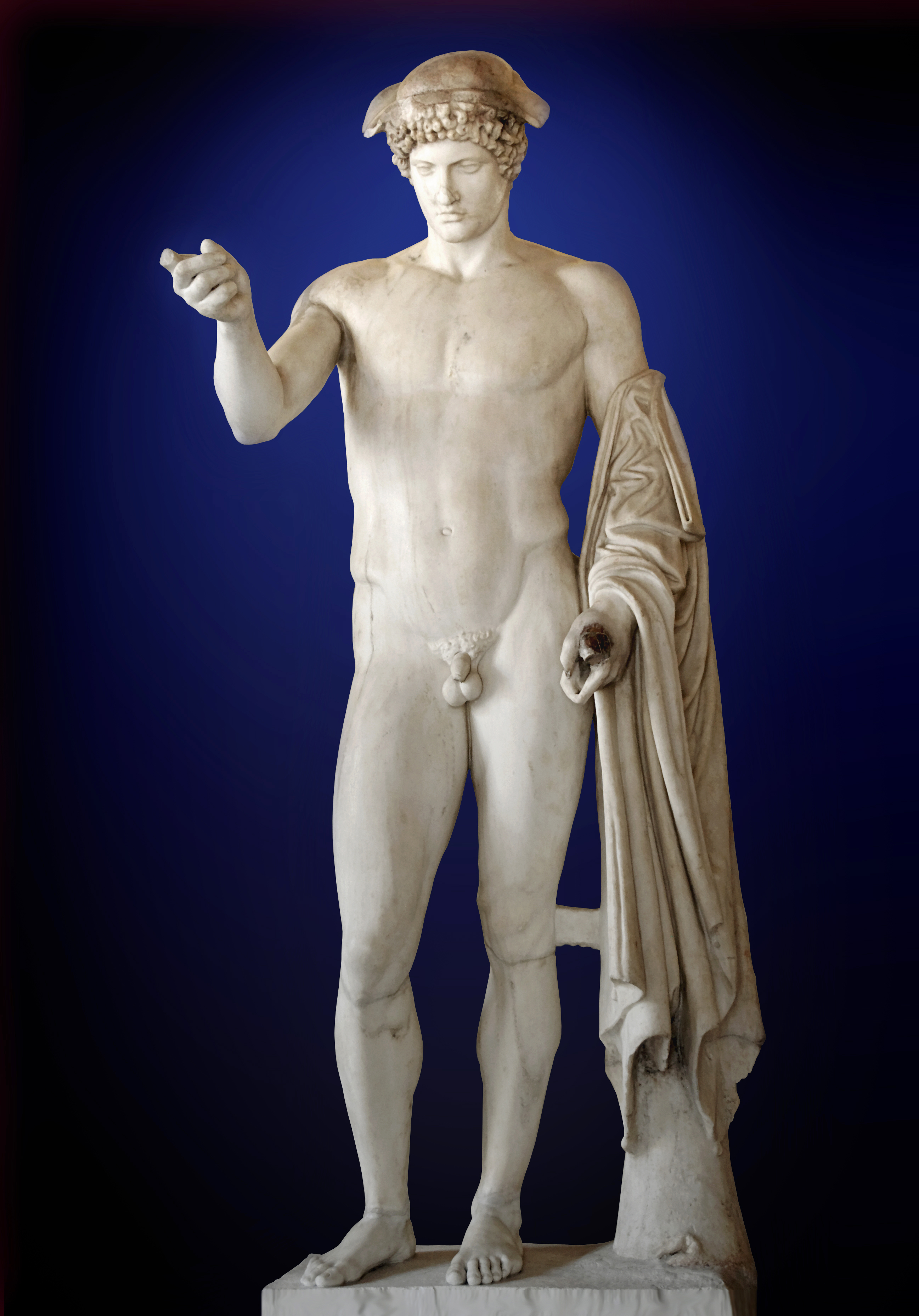 So-called “Logios Hermes” (Hermes Orator). Marble, Roman copy from the late 1st century CE-early 2nd century CE after a Greek original of the 5th century BC.